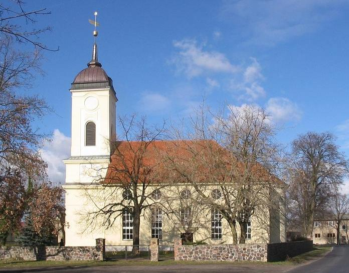 Baroque church in Christinendorf, built in 1754. The village Christinendorf is a part of the town Trebbin in the district Teltow-Fläming, state Brandenburg, Germany.